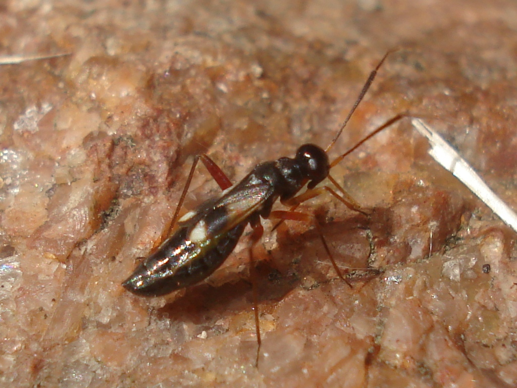 Dryophilocoris flavoquadrimaculatus